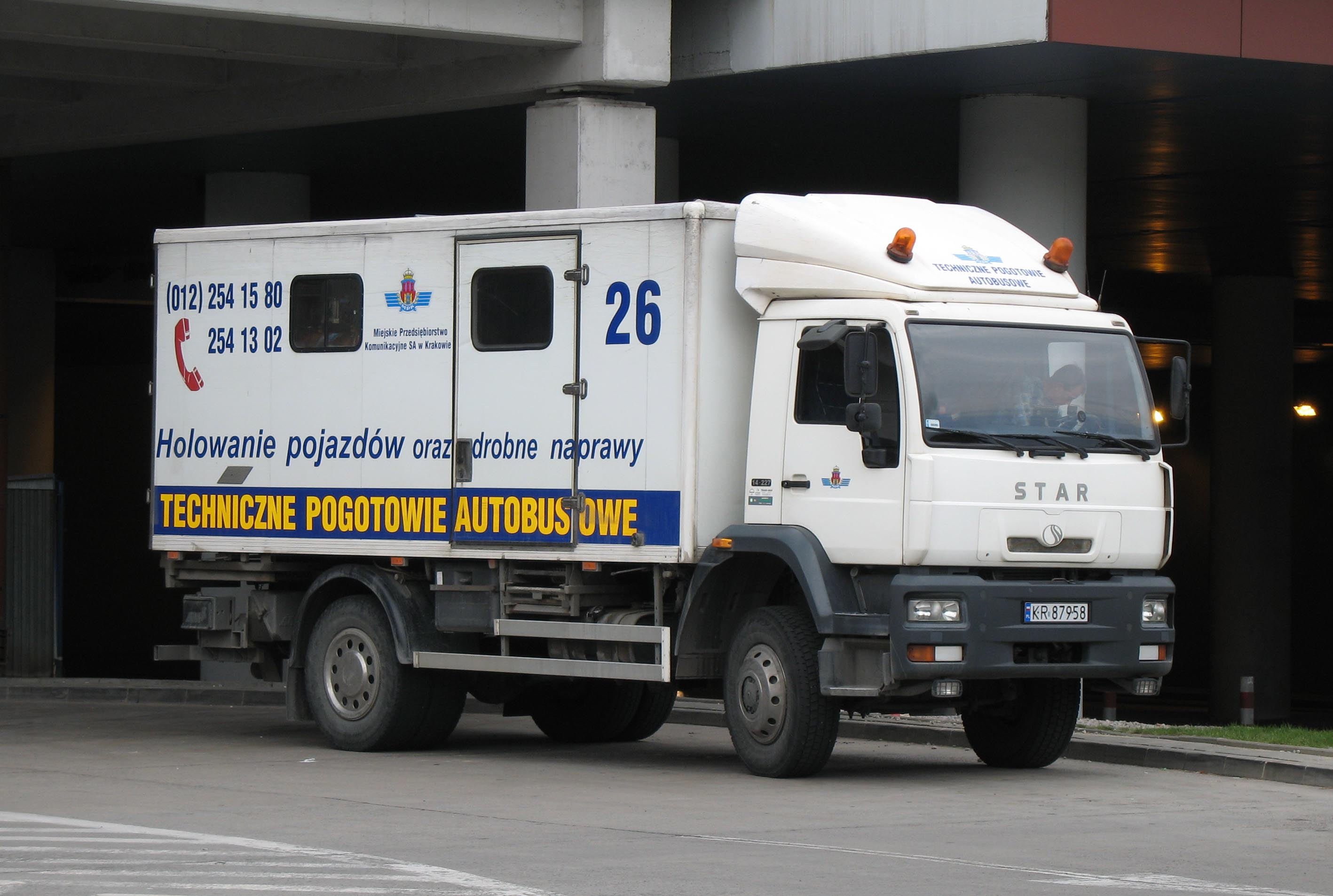 Star 14.227 truck in Kraków, Poland.